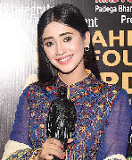 Rajan Shahi, Shivangi Joshi and Mohsin Khan grace Dadasaheb Phalke Film Foundation Awards 2019